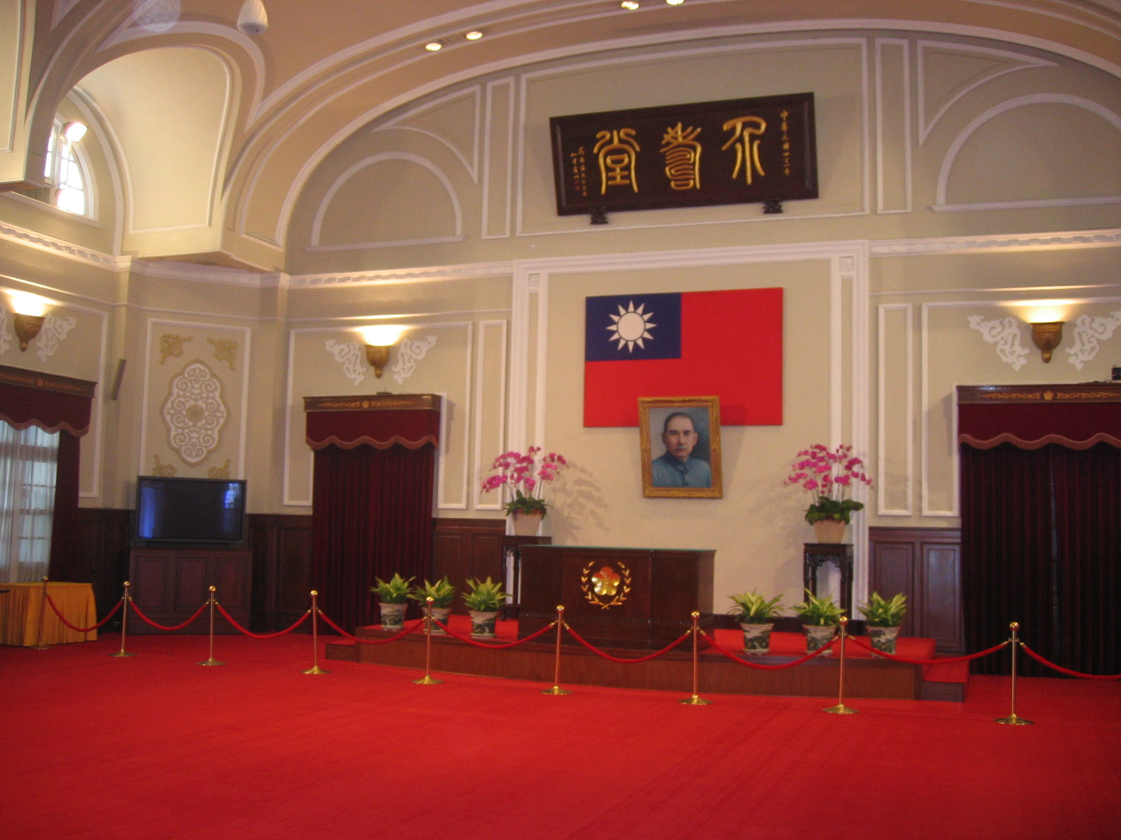 Photo taken by User:Jiang on 2005-08-06 in Taipei City, Republic of China.